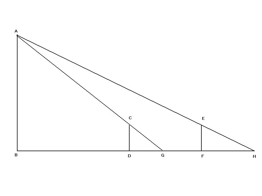 Diagram for Problem 1 of Sea Island Mathematical Manual 望海岛示意图